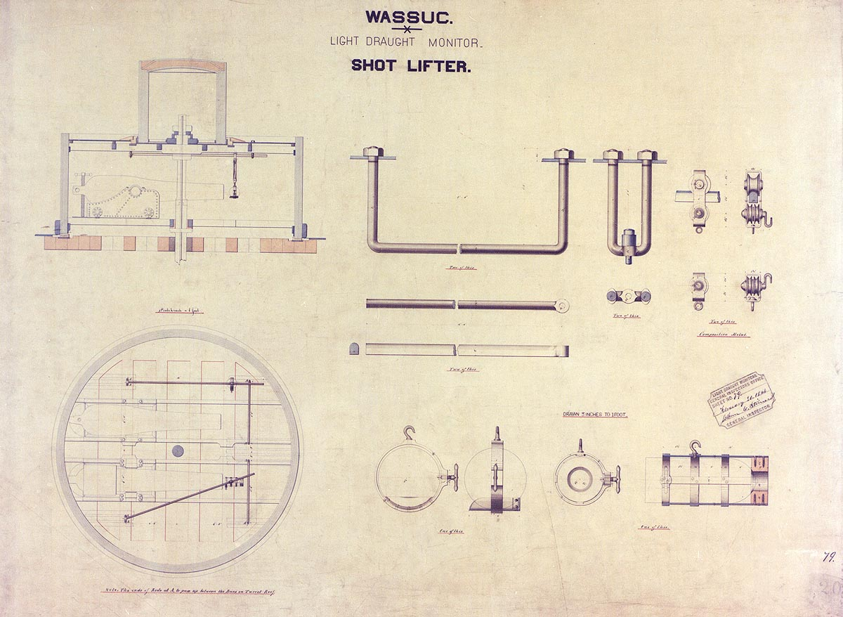 Hand-colored construction drawing of shot lifter fittings for the light-draft monitor USS "Wassuc"'s gun turret. This drawing is stamped "Light Draught Monitors General Inspector Office. Sheet No. 79", is dated 20 February 1864 and signed by Alban C. Stimers, General Inspector. Note that this plan shows the turret outfitted with one XI-inch Dahlgren smoothbore gun (left gun) and one 150-pounder (8-inch) Parrott rifled gun. Original caption: “Photo # NH 94045-KN Plan of a shot lifter fpr USS Wassuc, 20 February 1864”